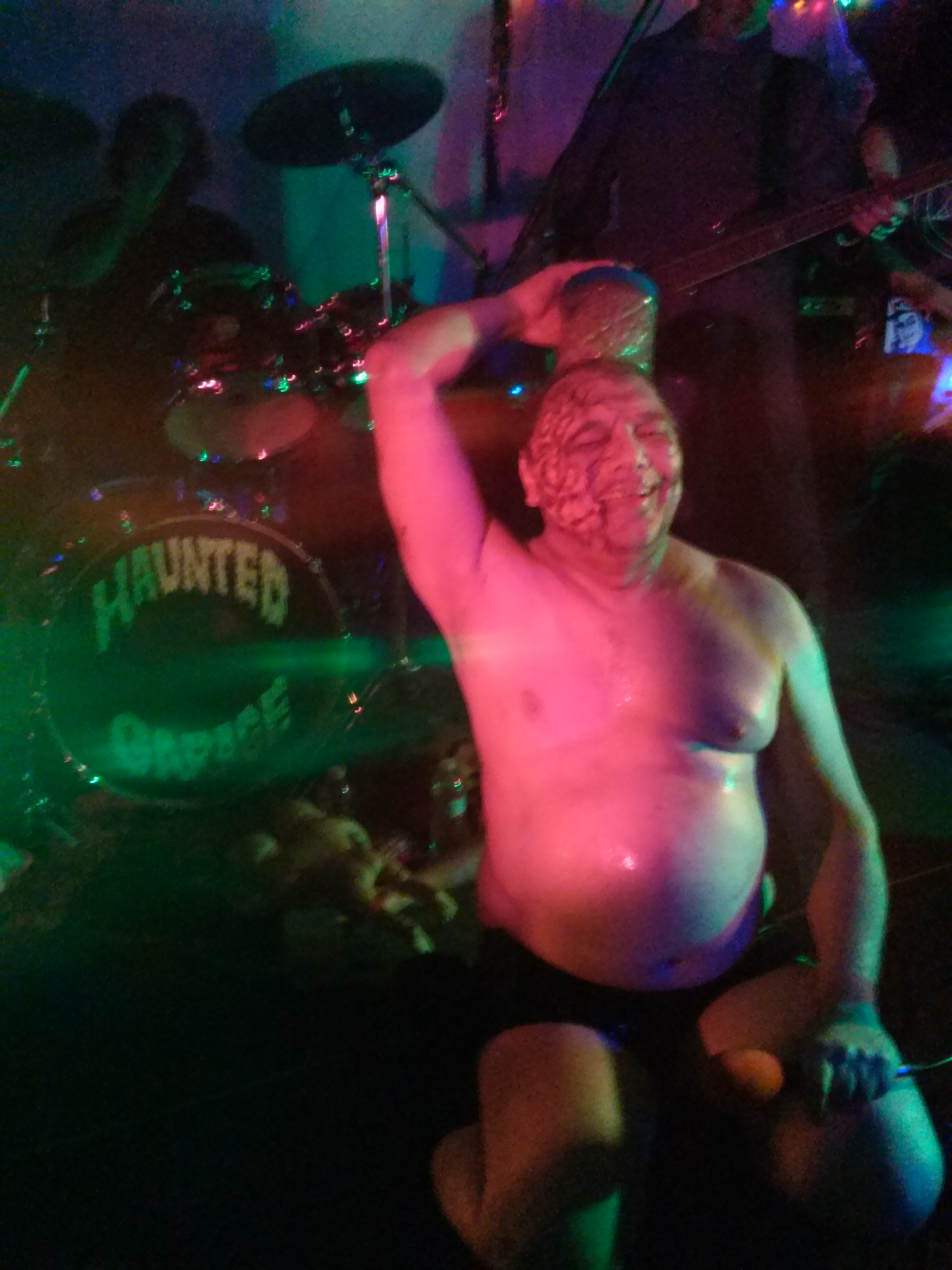 Dukey Flyswatter performing a reunion show with Haunted Garage in Los Angeles on November 1, 2013.